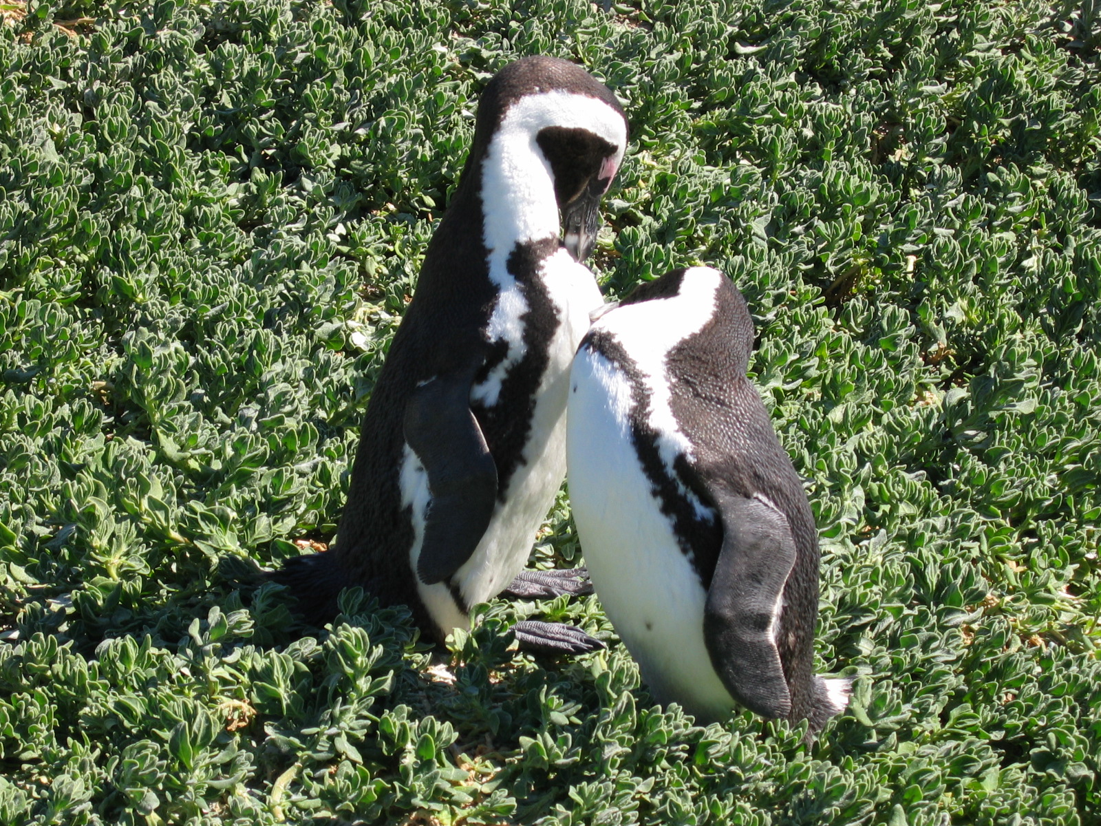 Spheniscus demersus, Boulders, South Africa